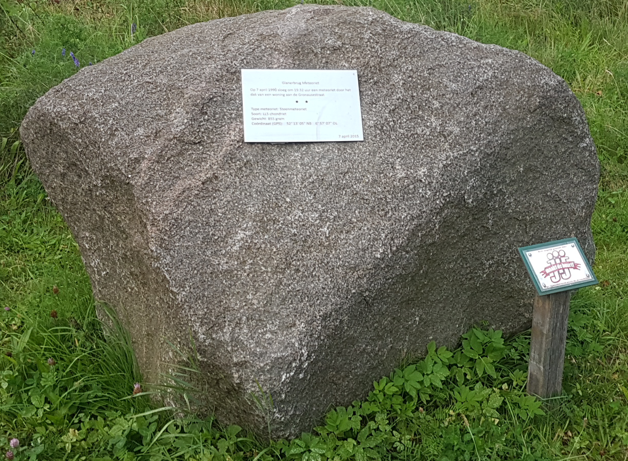 Boulder marking the point of impact of the meteorite